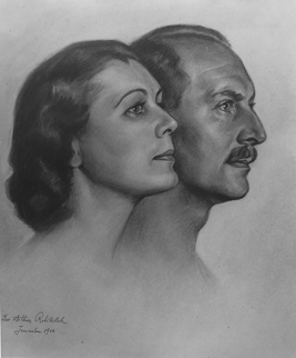 Principe Peter and princess Irene from Greece portrait